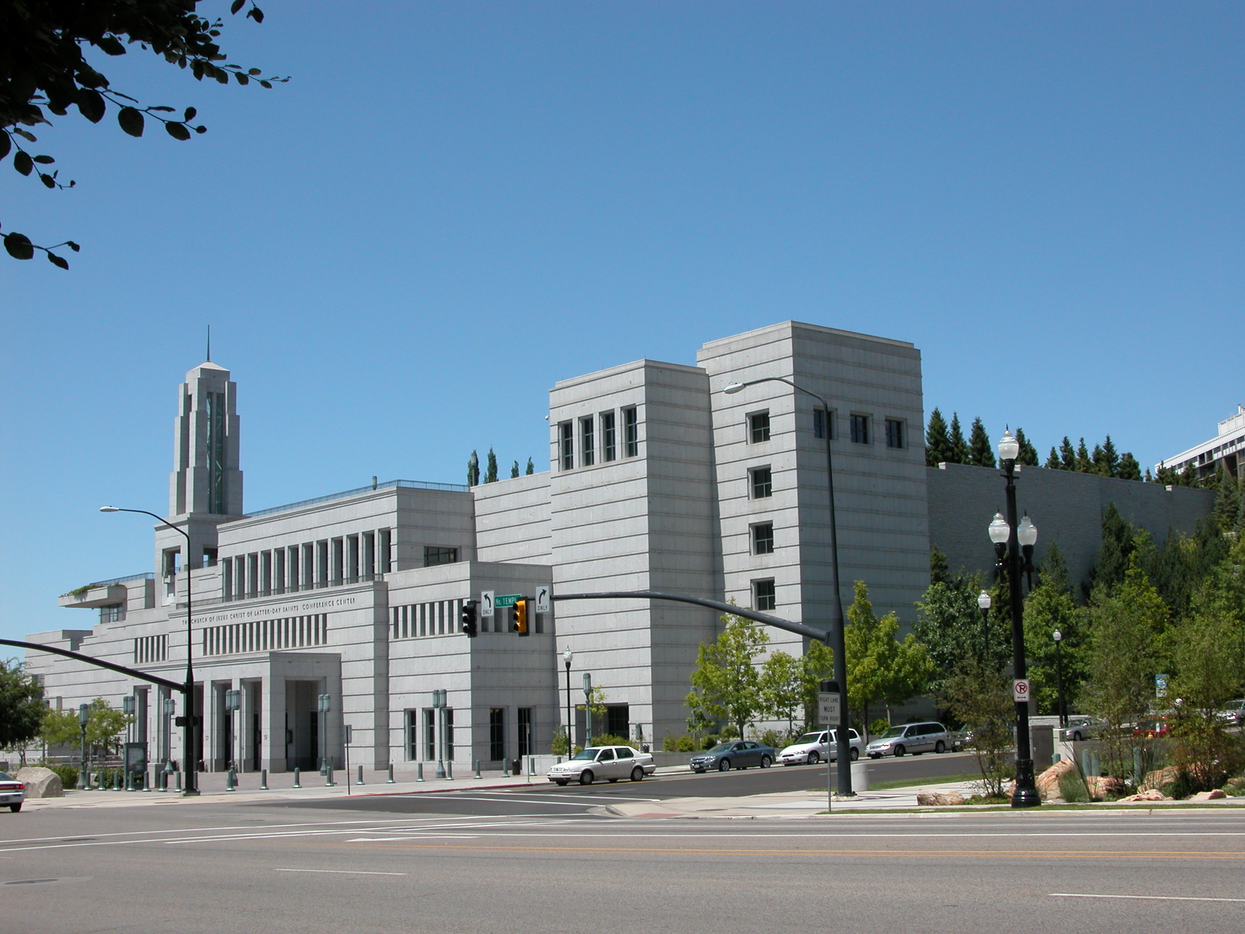 Conference center, Salt Lake City.